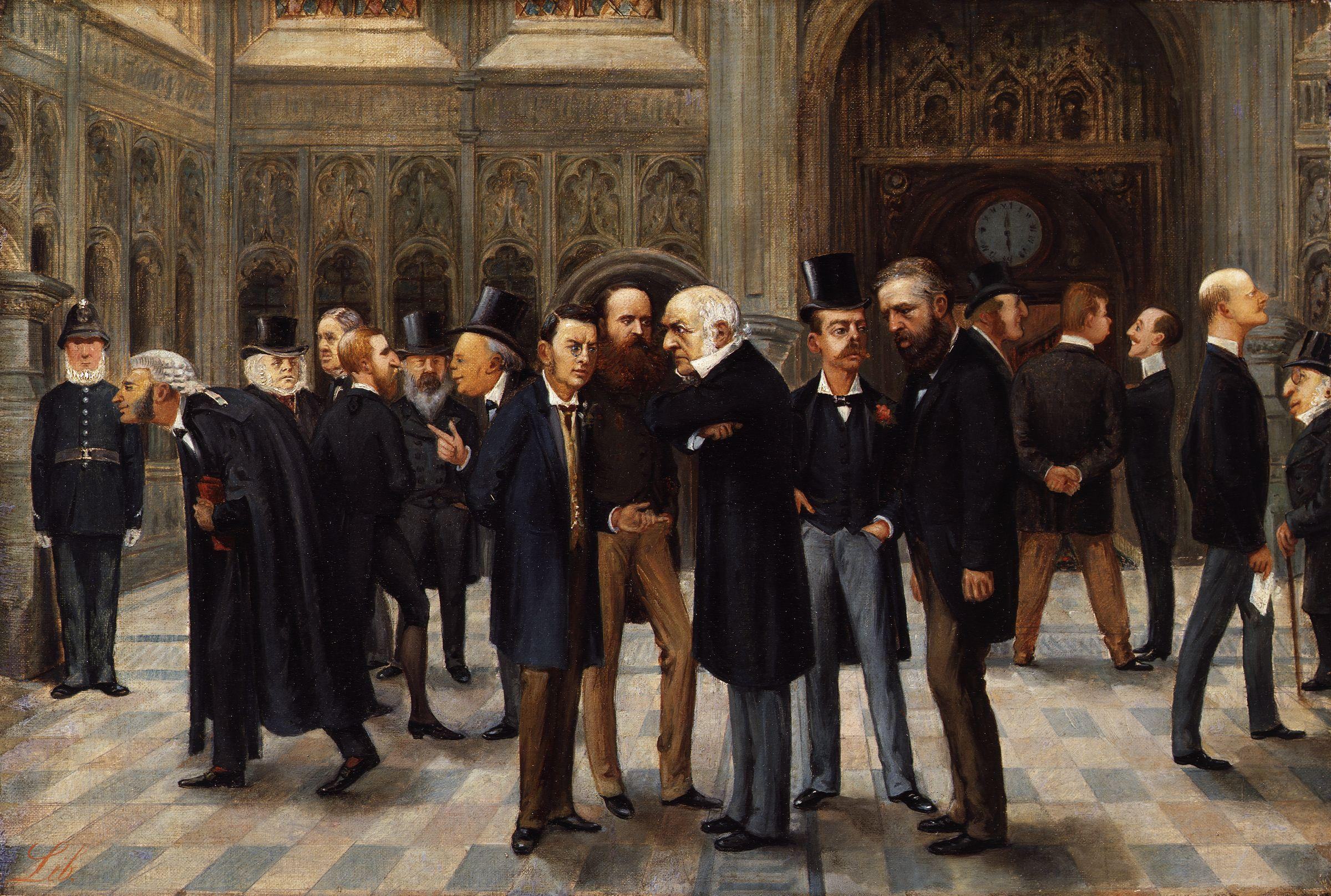 The Lobby of the House of Commons, 1886, by Liborio Prosperi ('Lib') (died 1928). The five figures in the foreground are (left to right) : Joseph Chamberlain Charles Stewart Parnell William Ewart Gladstone Randolph Spencer-Churchill Marquess of Hartington